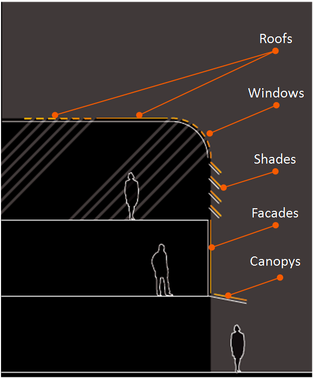 GiPV and BiPV Applications, Description of the Building Envelope were GiPV and BiPV is used